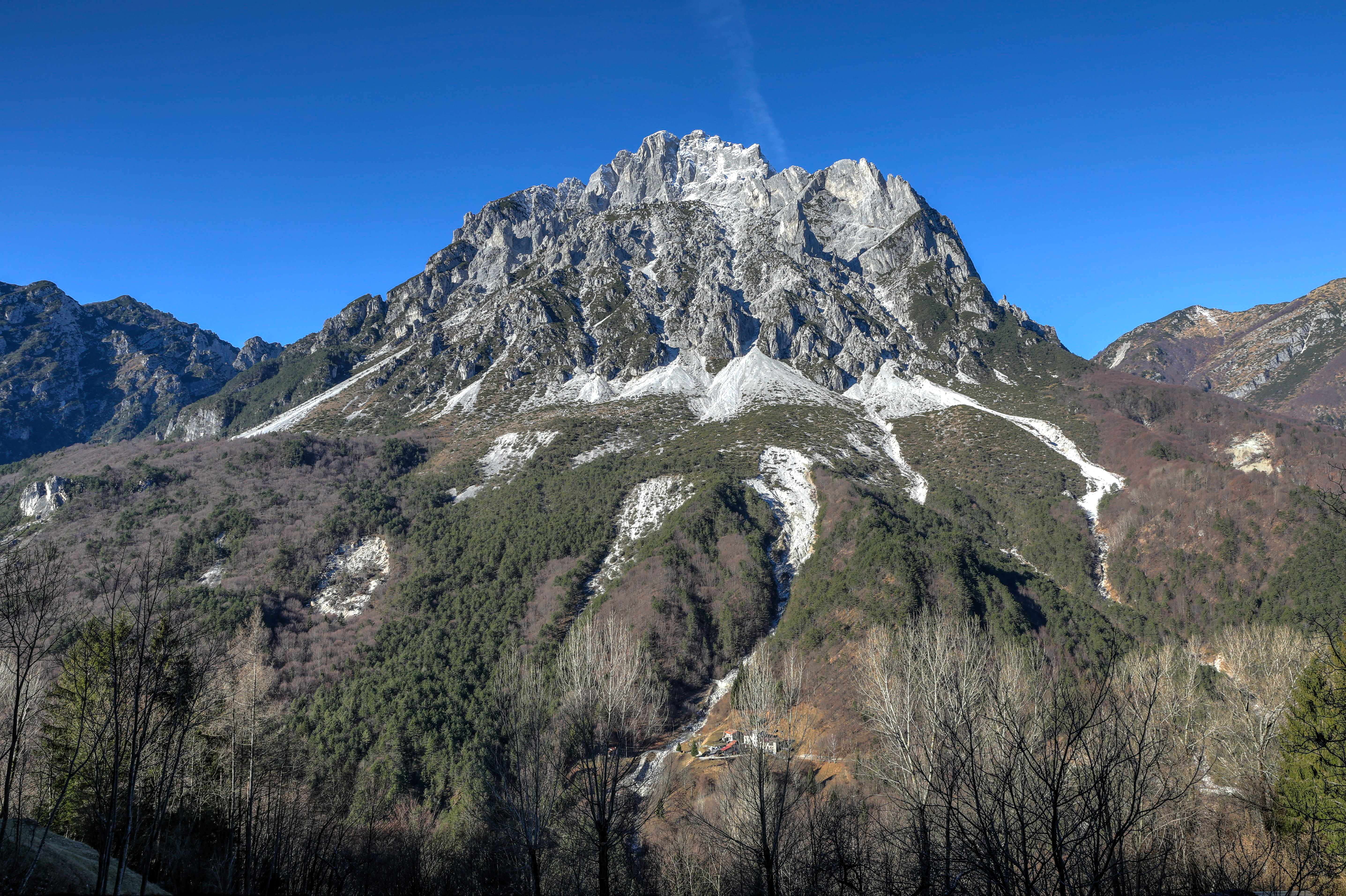 Creta Grauzaria (2.065m) seen from hamlet Drentus above Dordolla in the Val d'Aupa in the Carnic Alps, community Moggio Udinese / Friuli-Venezia Giulia / Italy / EU.